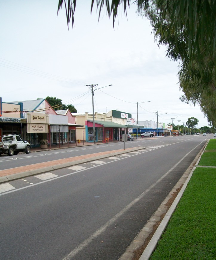 Looking south on the Bruce Highway (A1) where it passes through the central business district of Home Hill, Queensland. Photo taken by User:Bruceanthro in May 2009 specifically to upload into Wikipedia's Home Hill article